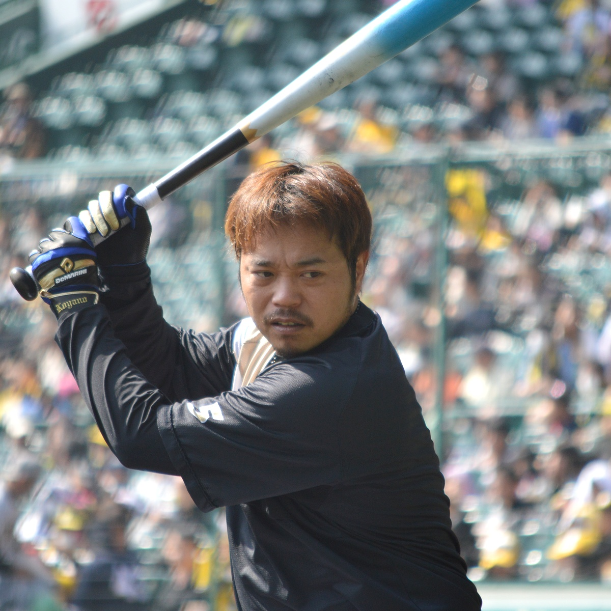 Eiichi Koyano, infielder of the Hokkaido Nippon-Ham Fighters, at Hanshin Koshien Stadium.